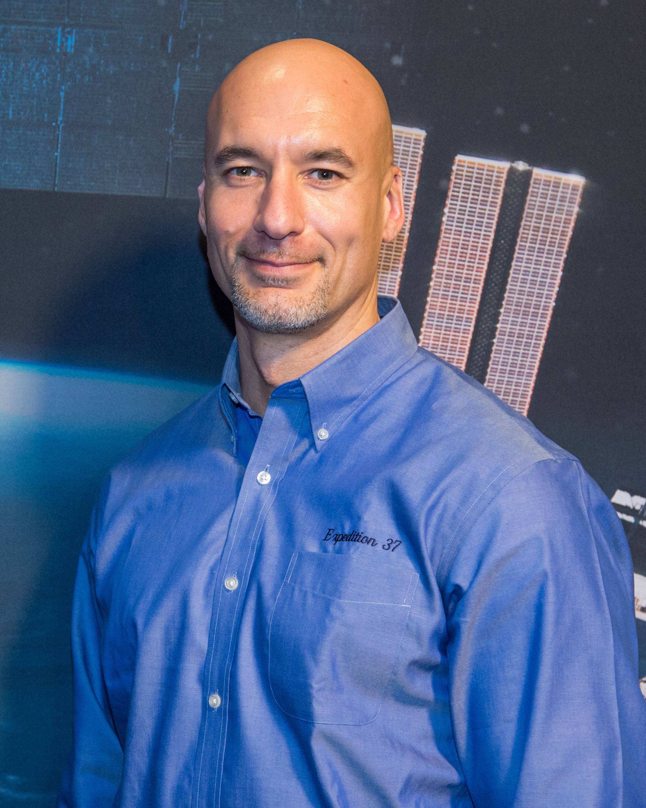 Following the March 19 Expedition 36/37 (Soyuz 35) press conference, European Space Agency astronaut Luca Parmitano and his two crewmates posed for individual as well as group pictures.